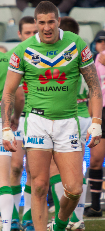 Joel Thompson